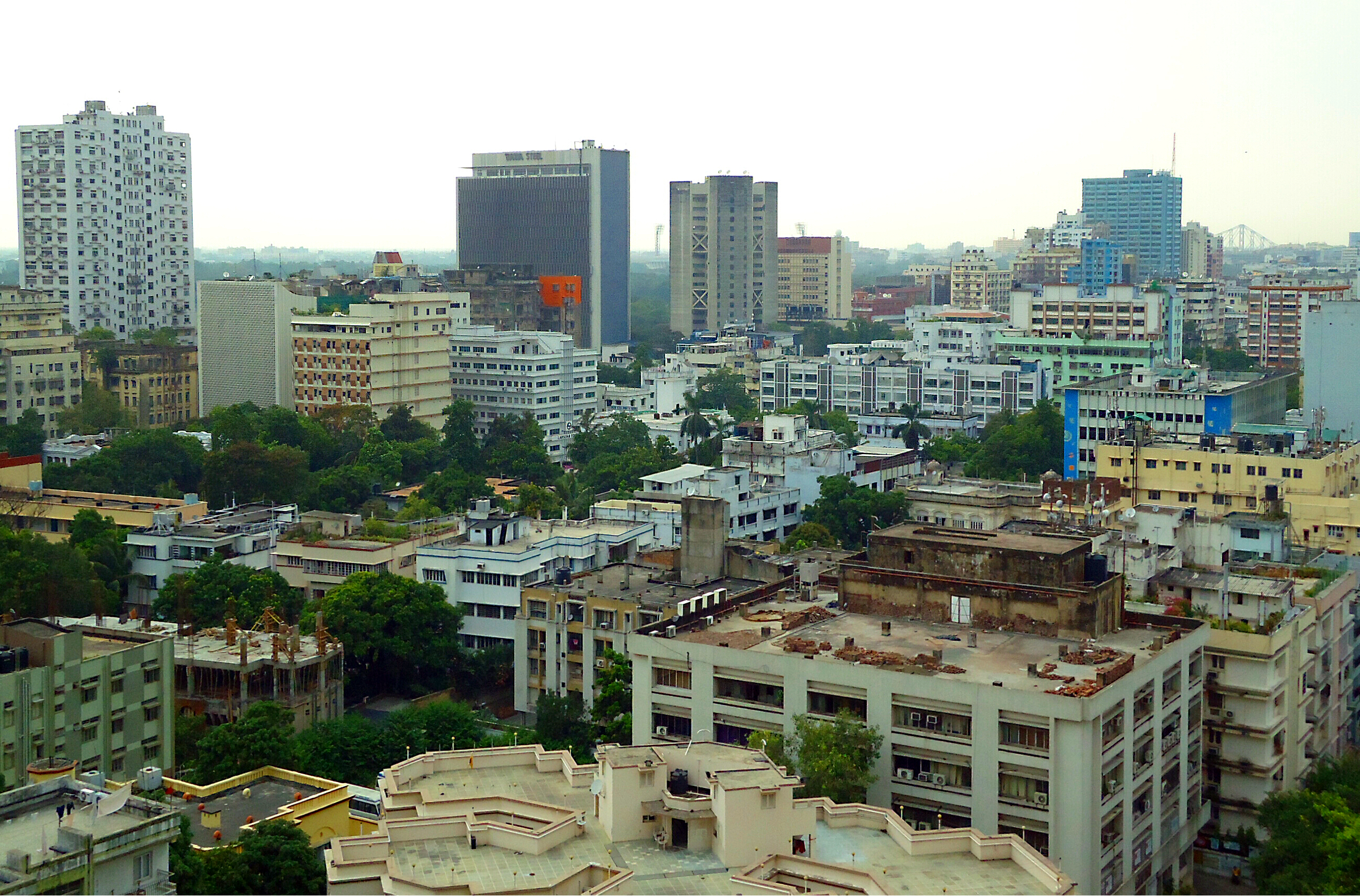 South Chowringhee skyline